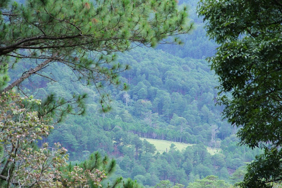 View from the trail to Langbiang Peak